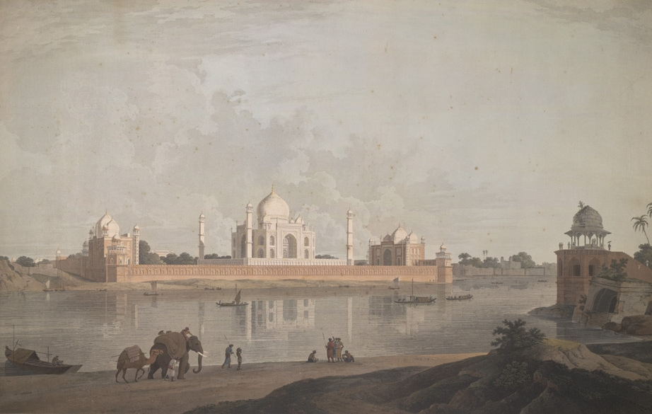 'The Taje Mahel, Agra'. Aquatint